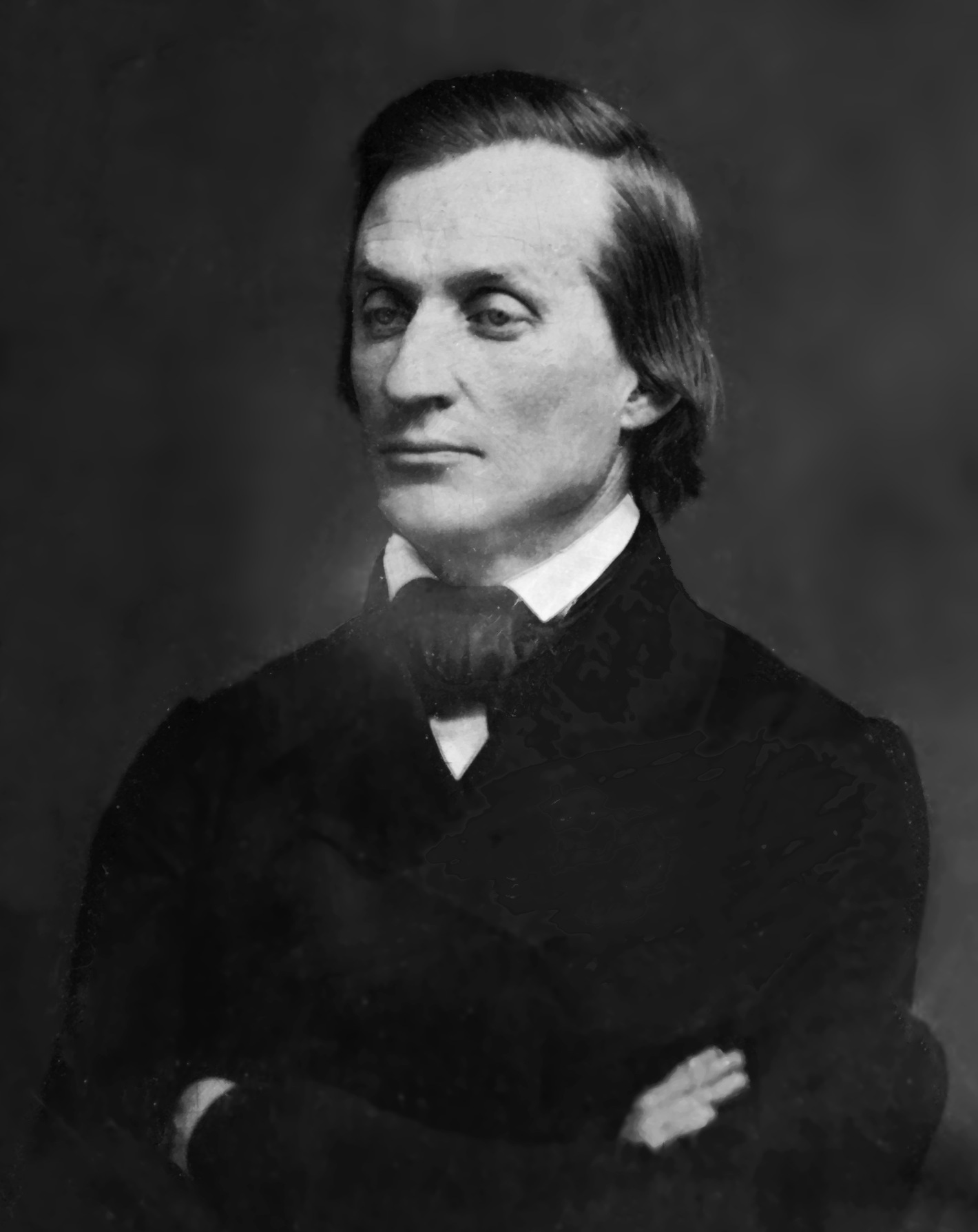 Solon Borland, United States Senator from Arkansas.